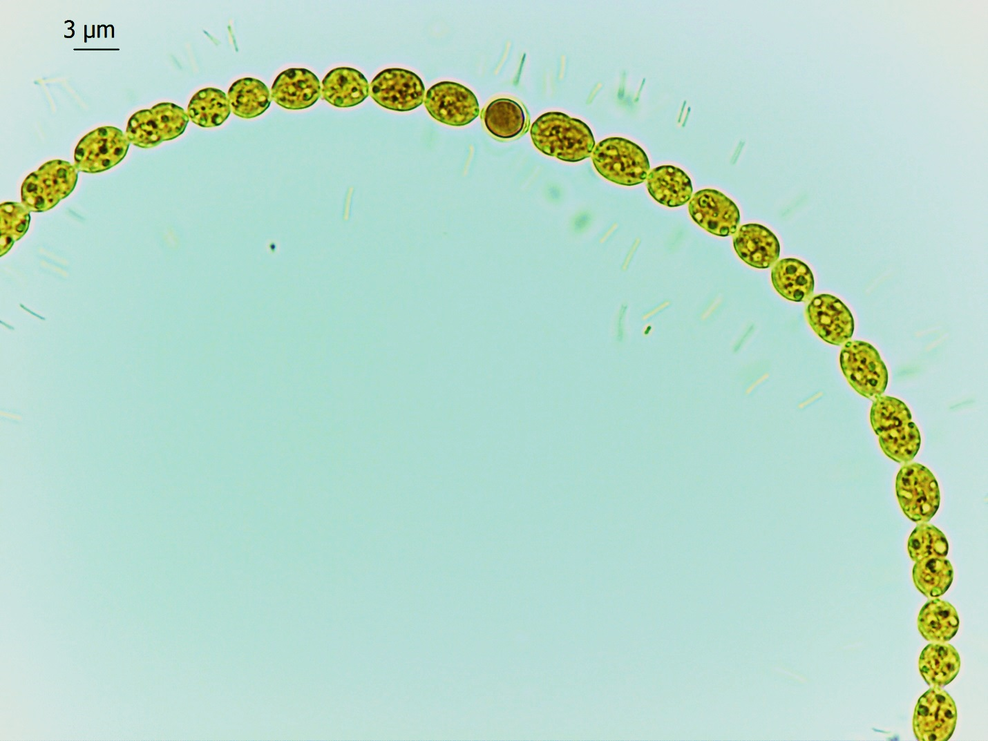 The image depicts a necklace-like cyanobacteria colony of Anabaena sp. captured in sample collected from Lake Burabay, Kazakhstan in August 2014.